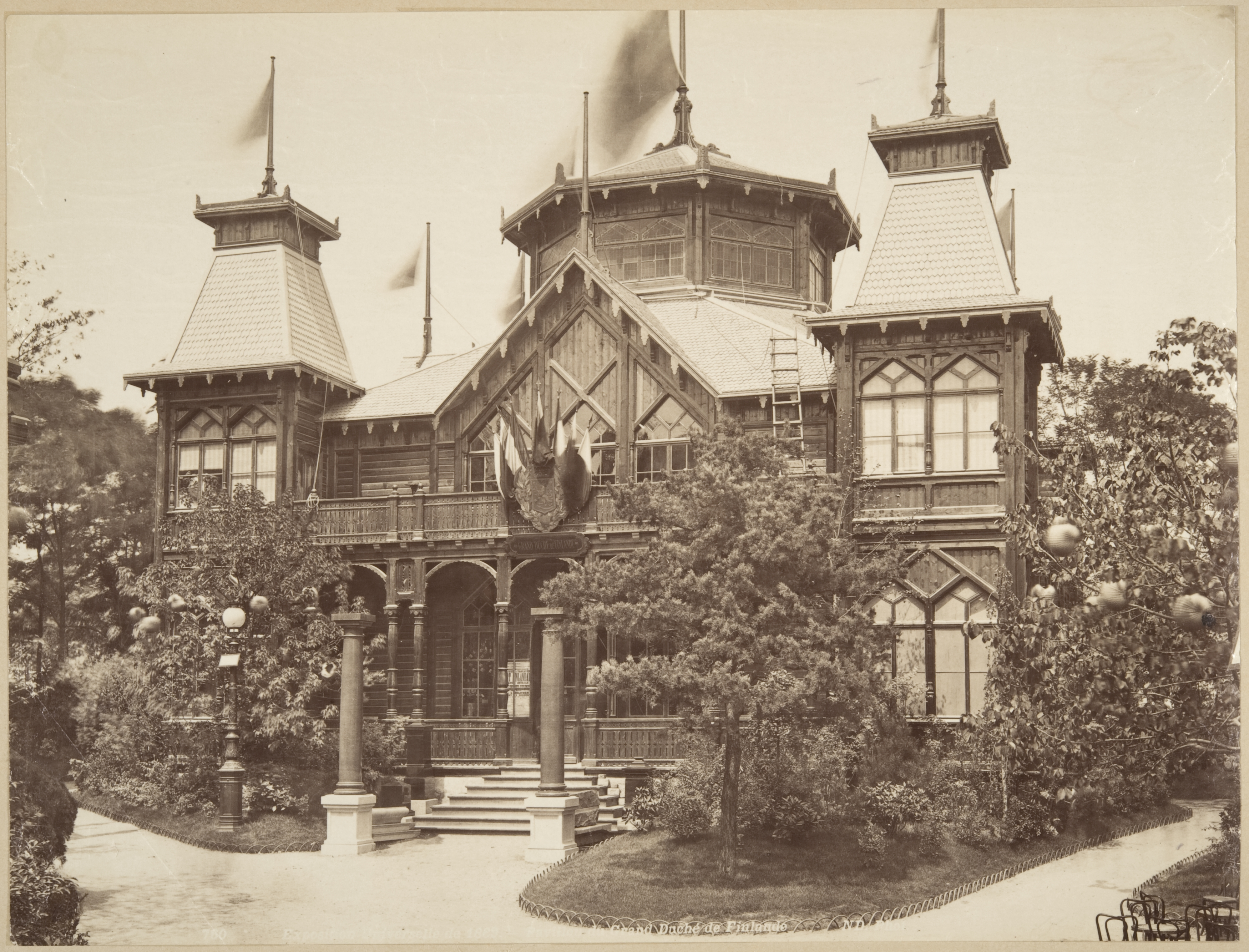 The pavilion was designed by Theodor Höijer.